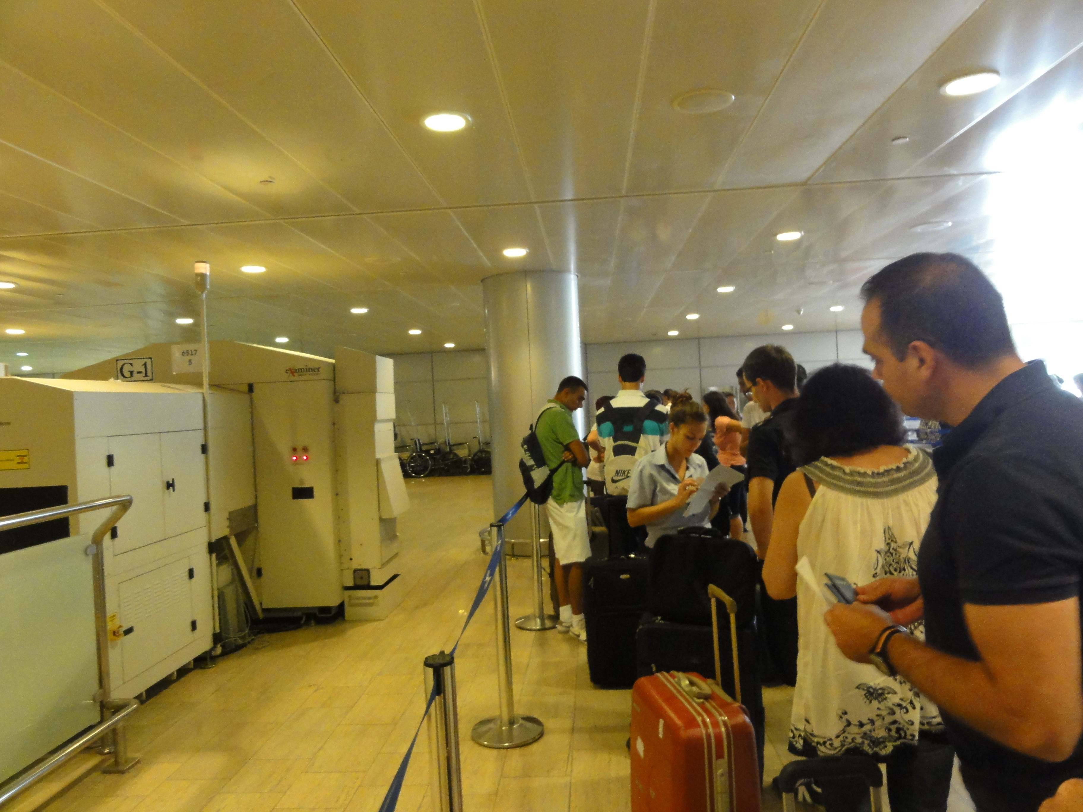 Ben Gurion International Airport terminal 3 - Security interviews for international outbound flights (Israel Border Police).